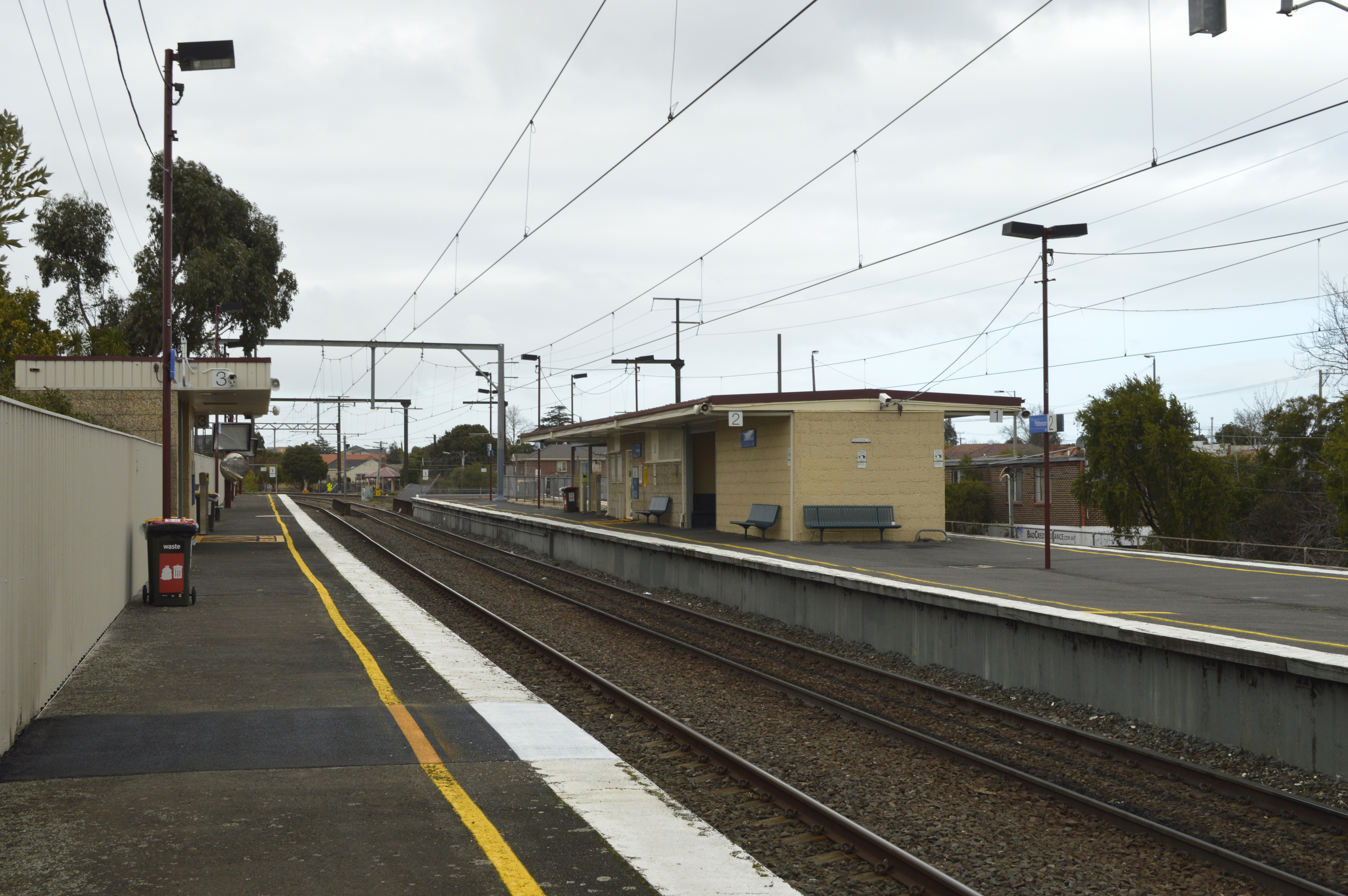 Down view from platform 3